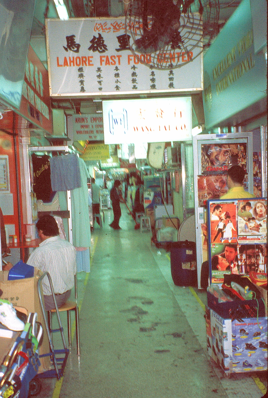 Interior view of the Chungking Mansions, showing retail activities. Photo taken in August, 2001.Not home 21:21, 2 May 2007 (UTC)